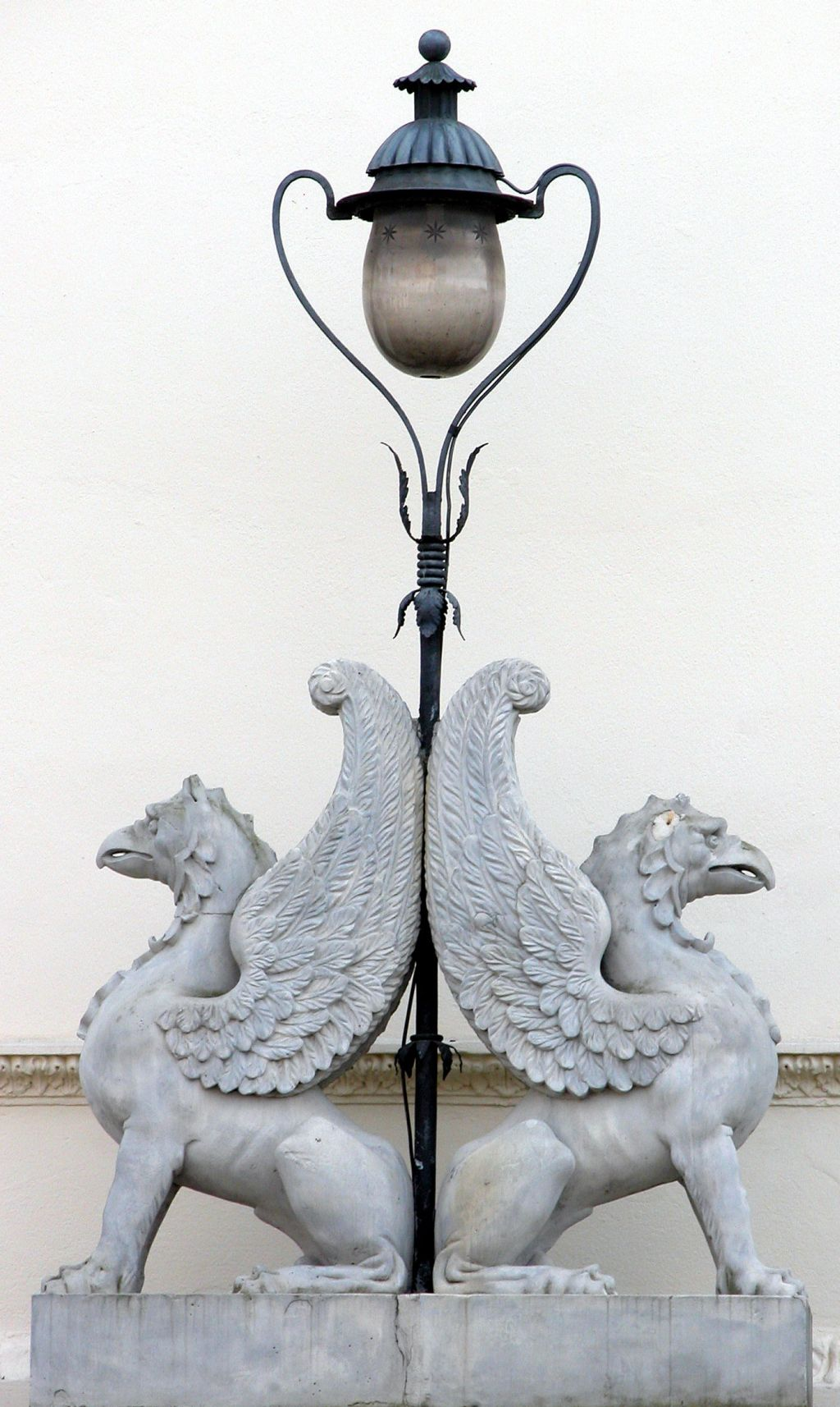 Brunswick, Germany: Griffins on Salve Hospes House.